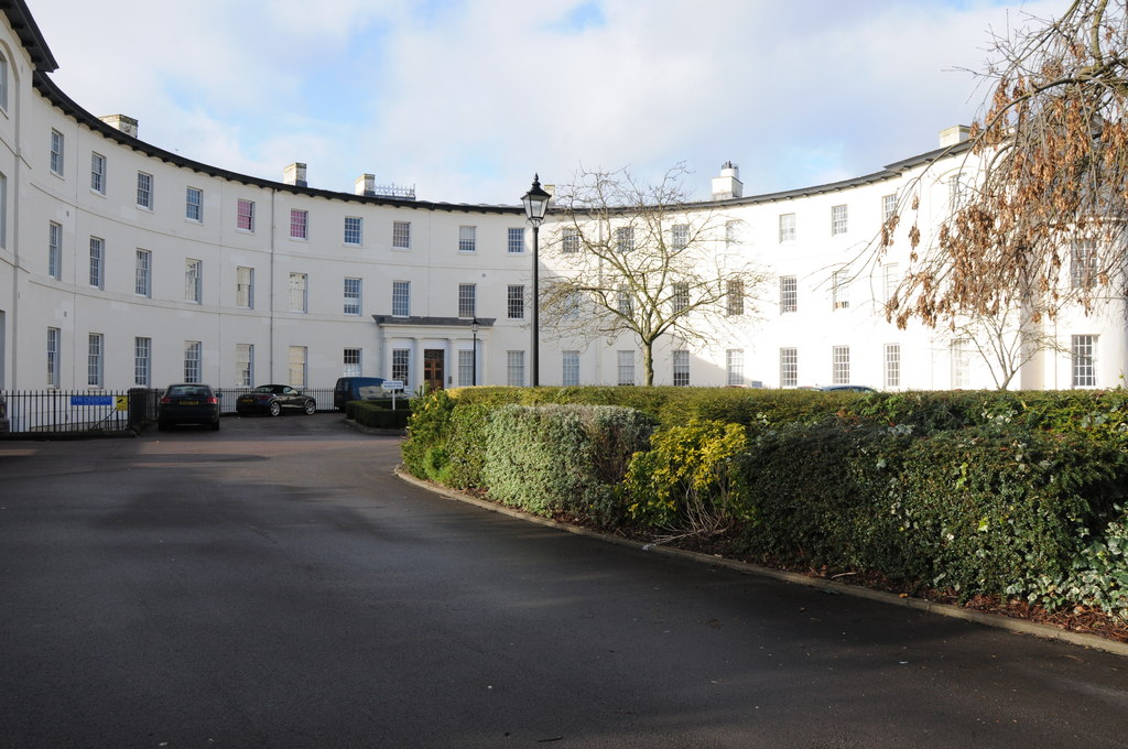 The Crescent, Horton Road, Gloucester